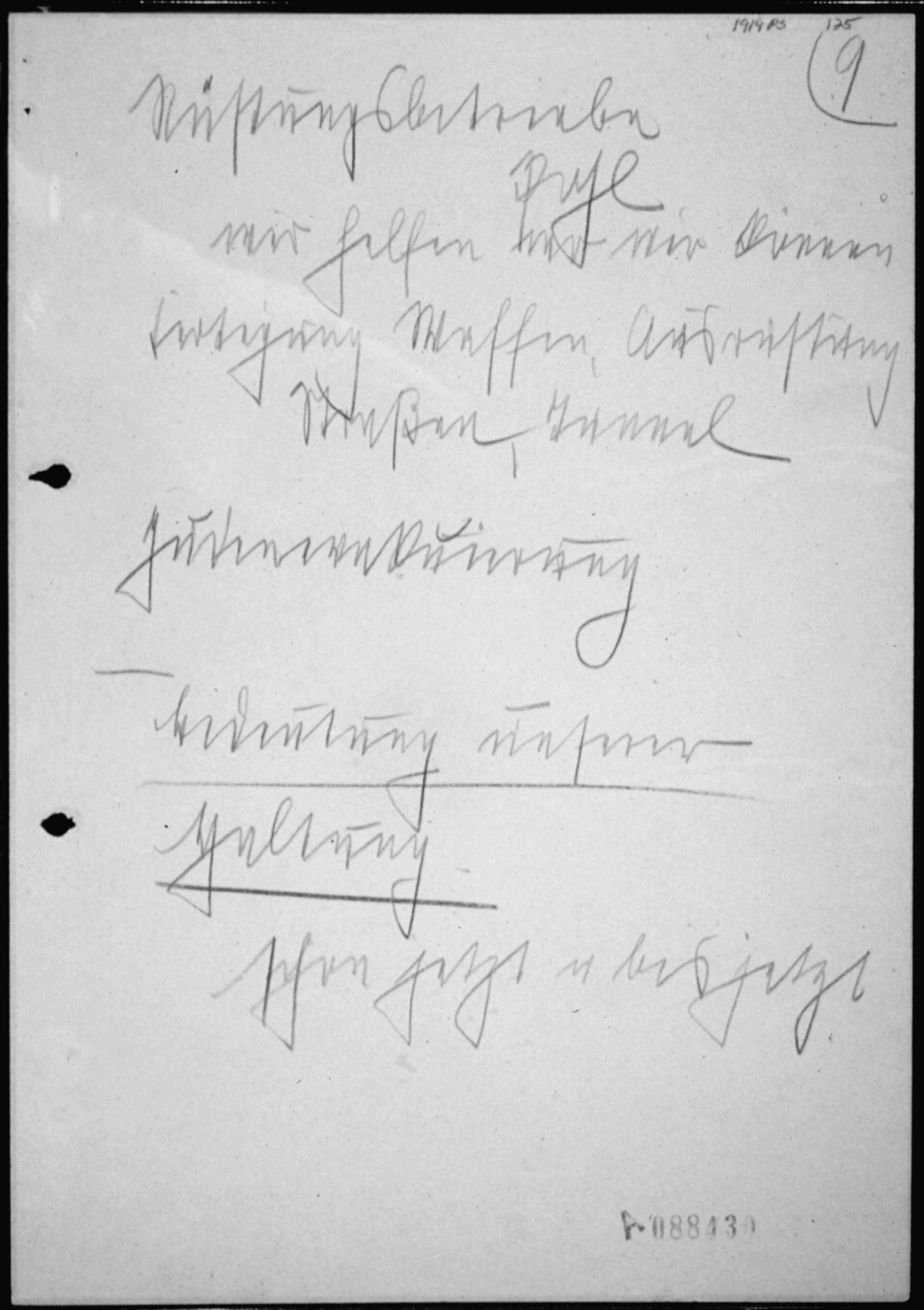 Scope and content: Heinrich Himmler was responsible for overseeing the implementation of the "final solution." In a speech to 100 SS generals, he spoke of the extermination of Jews. This handwritten note uses the euphemism "Judenevakuierung" meaning evacuation of the Jews. However, in sound recordings of the speech, Himmler defined "evacuation" as "extermination." General notes: Exhibit 170 submitted to the Tribunal by the United States. Exhibit History: "American Originals," December 1996 - December 1997, National Archives Rotunda, Washington, DC, Exhibit No. 624.0130. Featured Document: "Days of Remembrance," National Archives Constitution Avenue Lobby, April 15, 1993 - May 16, 1993, Exhibit No. 701.0001.